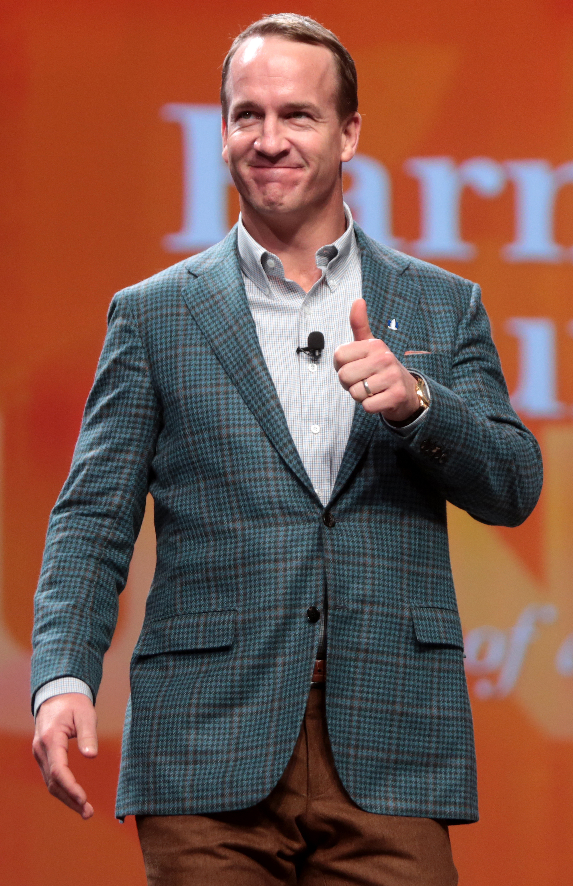 Peyton Manning speaking at an event in Phoenix, Arizona.